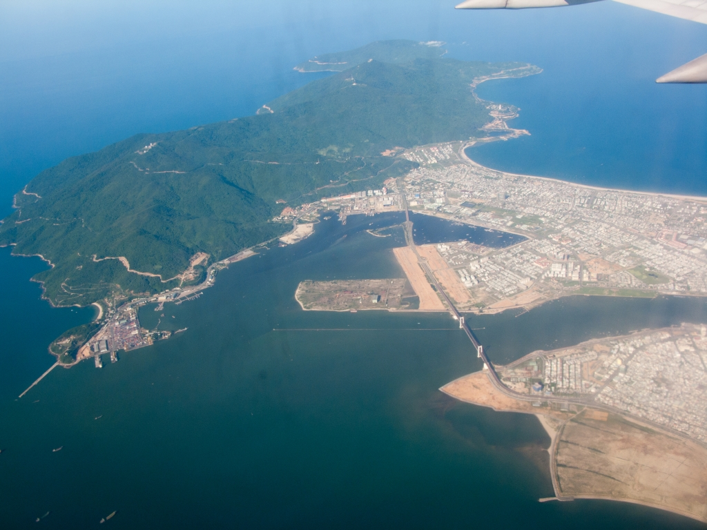 Son Tra Peninsular in Danang, Vietnam.The Tien Sa Terminal of Danang Port.Thuan Phuoc Bridge.